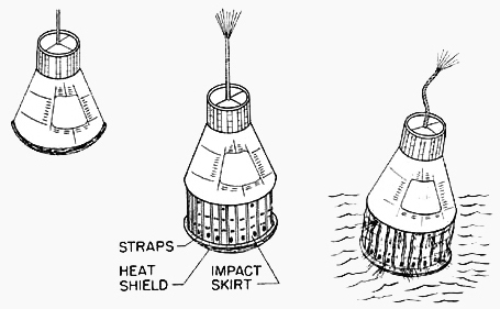 Mercury spacecraft landing bag. A skirt with holes is filled with air when the heatshield is dropped down just before impact. At impact, air is led out slowly through the holes and softening the landing